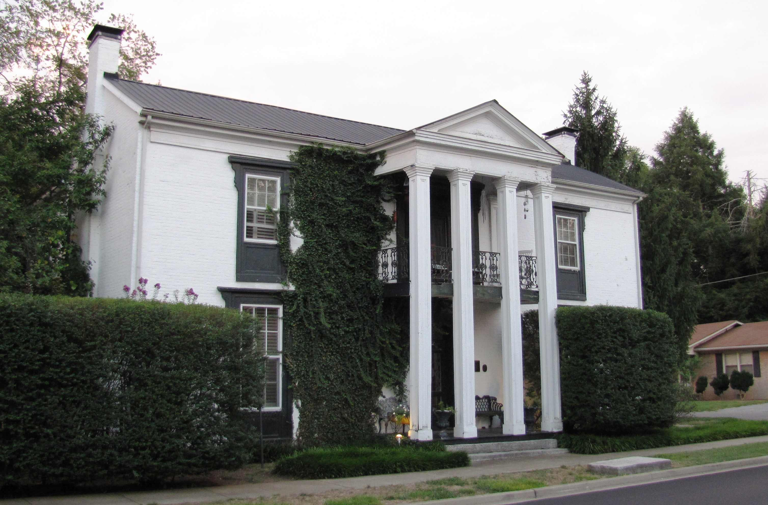 The Collier-Lane-Chrichlow House (500 N. Spring) in Murfreesboro, Tennessee, USA. Built in 1850, this house is now listed on the National Register of Historic Places.